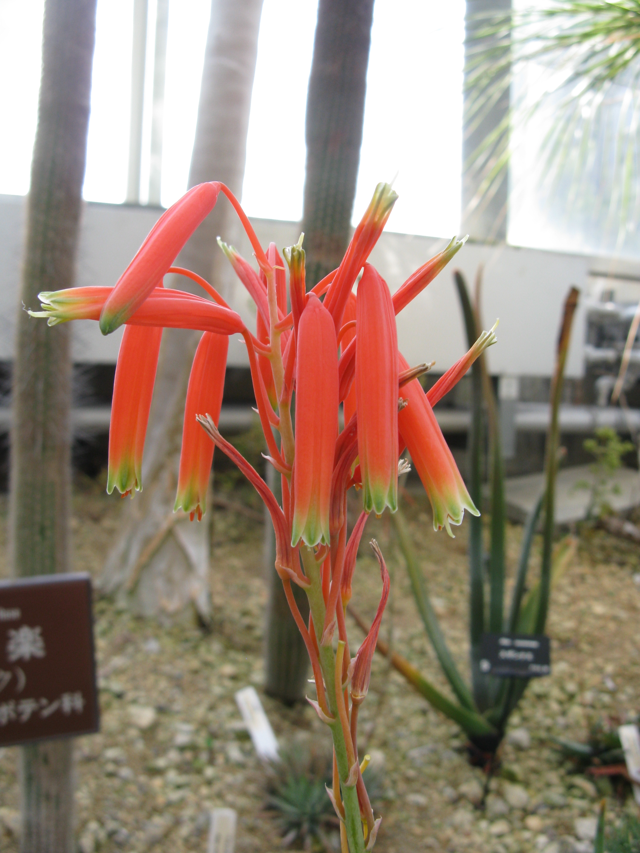 Scientific name Aloe wildii Place:Osaka Prefectural Flower Garden,Osaka,Japan